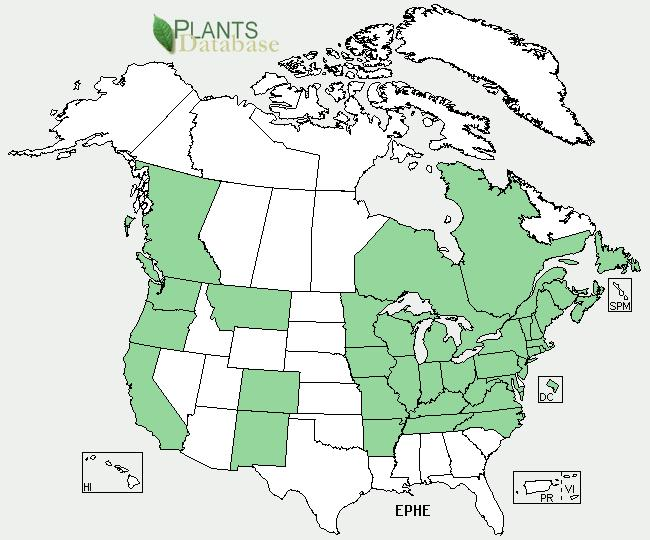 Epipactis helleborine US range map